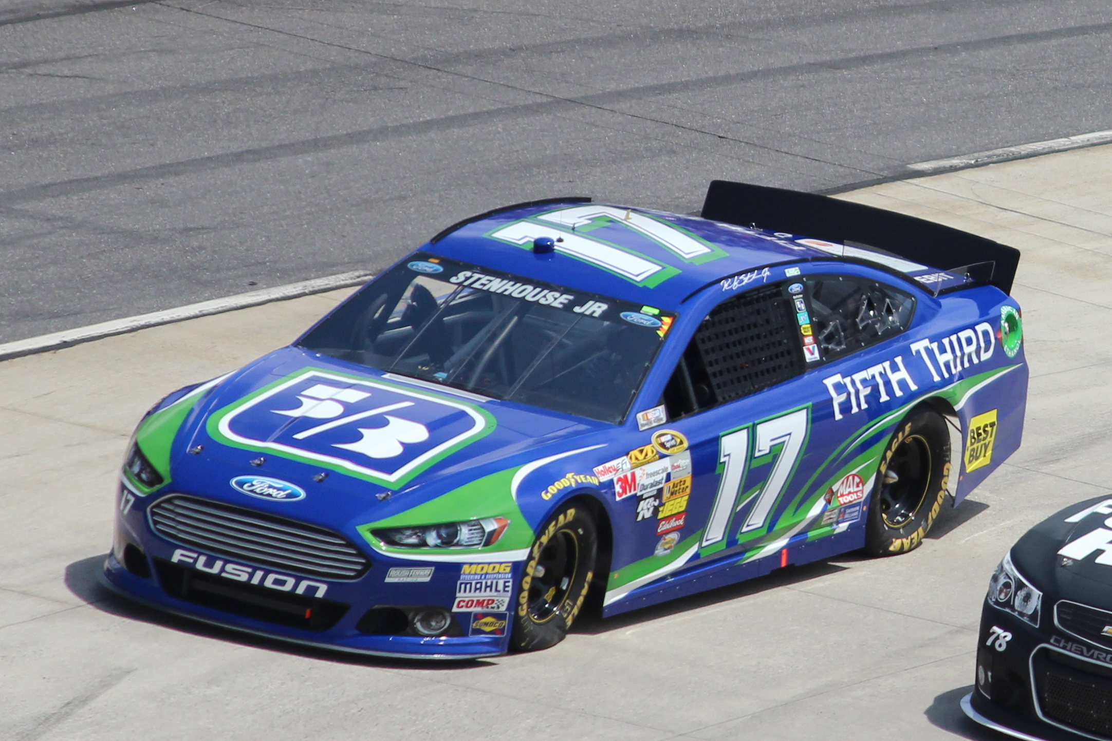 Ricky Stenhouse, Jr. competing in the 2013 STP Gas Booster 500 at Martinsville Speedway.